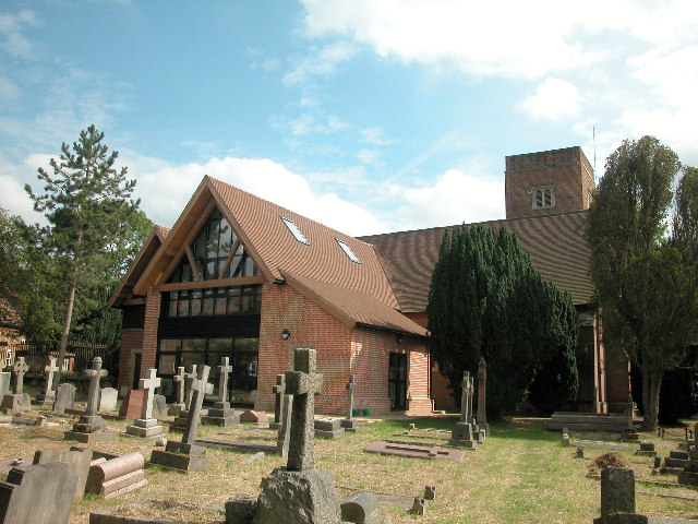 St John the Baptist Church, in Old Malden, Royal Borough of Kingston upon Thames, London.